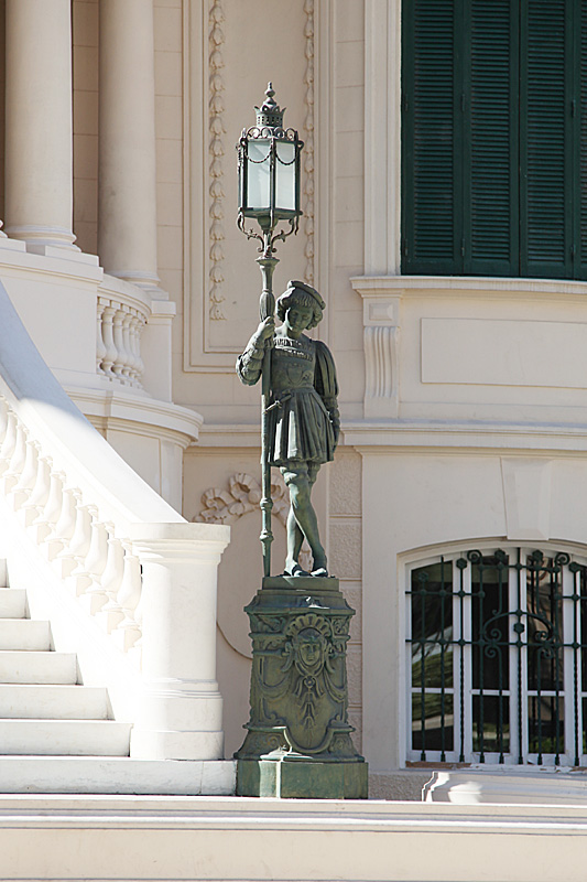 Lantern at the main entrance of the Royal Jewelry Museum, Alexandria, Egypt